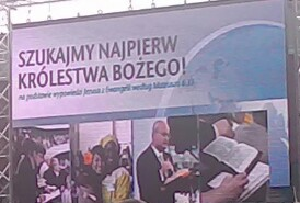 Convention Jehovah's Witnesses. Sosnowiec. 2014